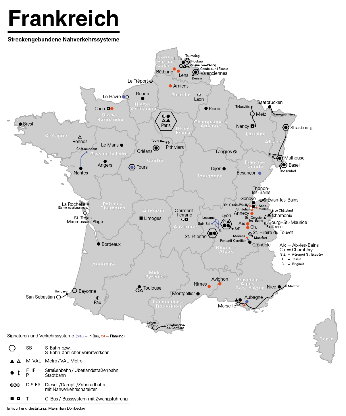 Map of fixed-route public transport systems (suburban railways, Rapid Transit and Light Rail Transit systems, tram, trolleybus) in France